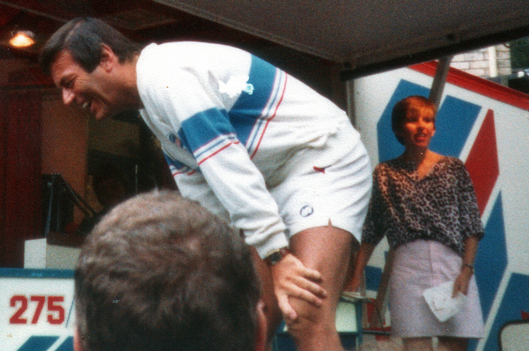 Tony Blackburn and Maggie Philbin at a Radio One Roadshow from summer early 1980s, possibly 1983.